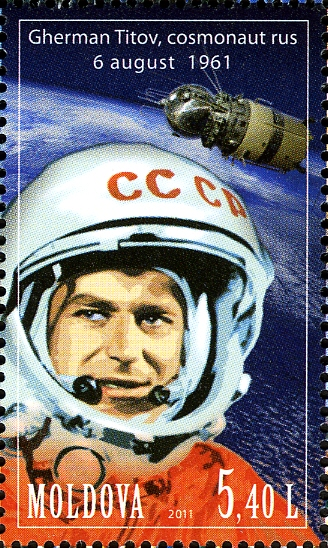 Stamps of Moldova